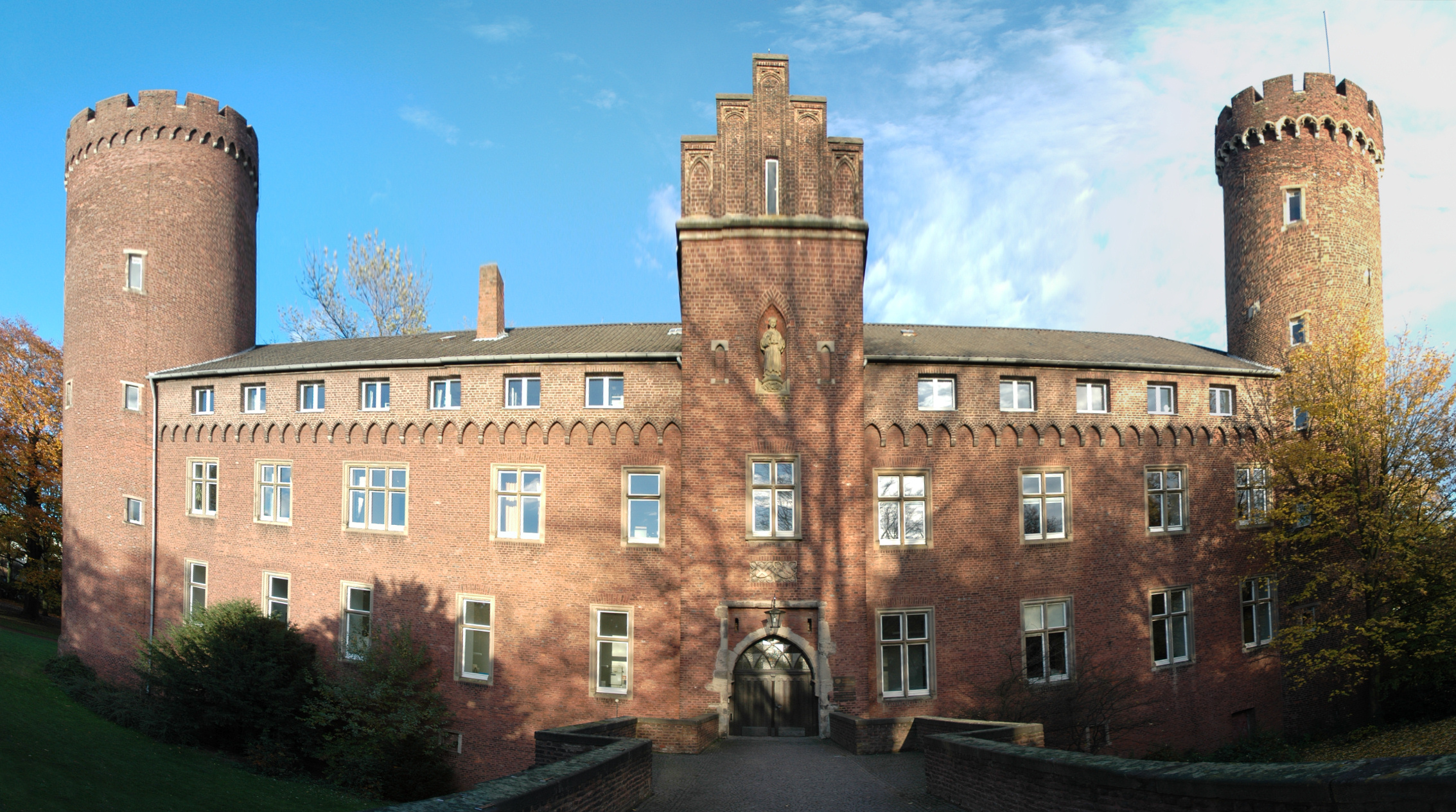 Castle of Kempen, west wing with portal This image shows a heritage building in Germany, located in the North Rhine-Westphalian city Kempen (no. 2).